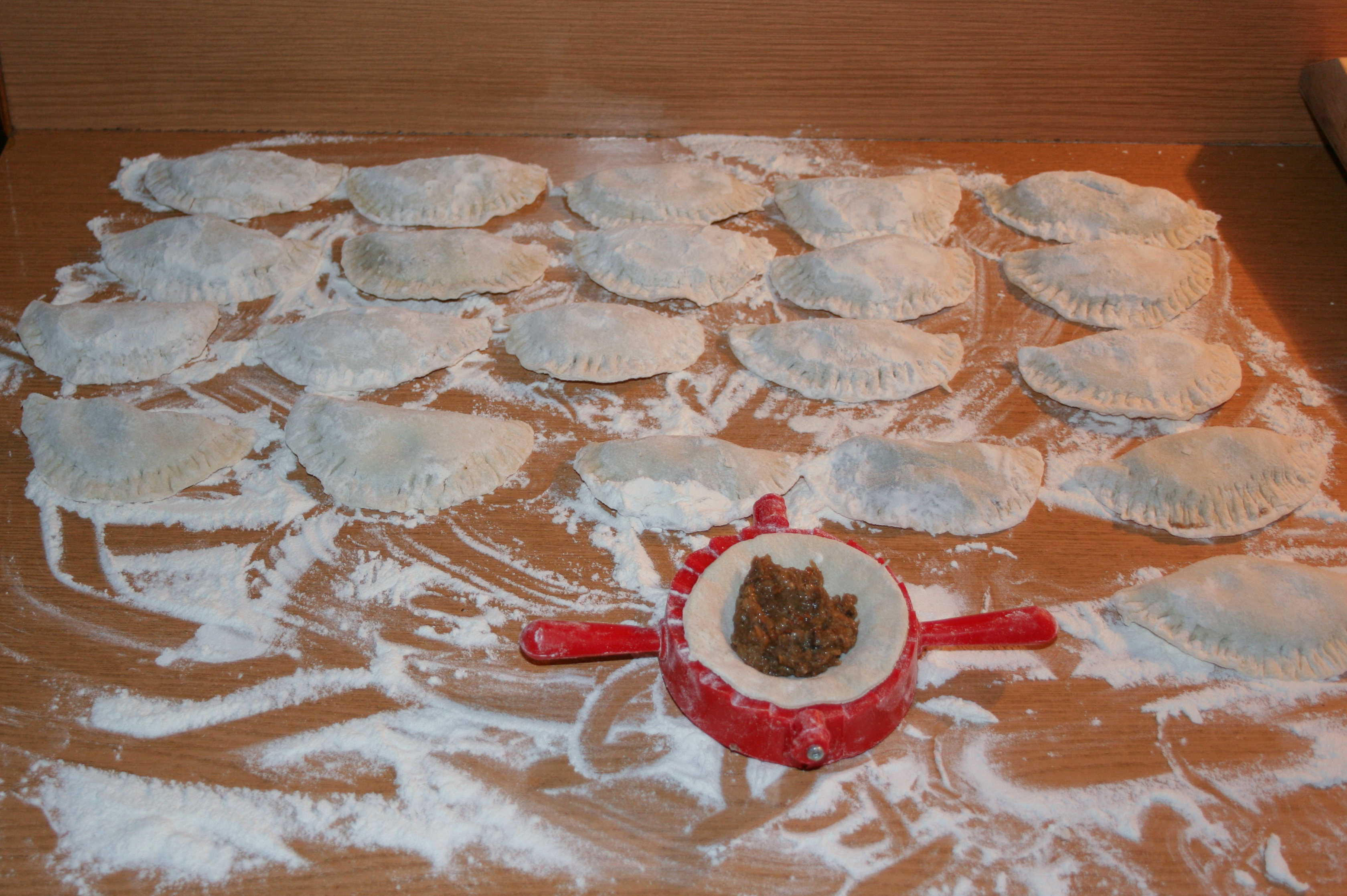 Pierogi, Gniezno, Poland